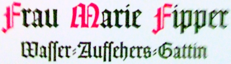 Memorial for Martin Achleitner at Marienklause, Munich, Bavaria, Germany: detail, showing the text "Wasser-Aufsehers-Gattin" containing the letter "long s" next to the similar letter "f"